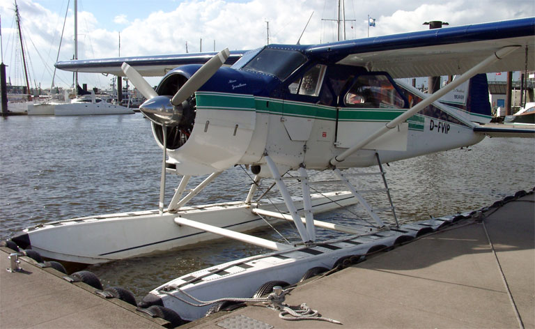 Seaplane Typ De Havilland Canada DHC-2 Beaver. It was used for sightseeing flights at Hamburg, Germany. It crashed on 2. Jul 2006.